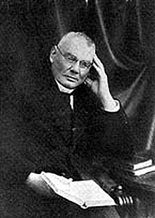 Photograph of Dr. Hugo Visscher (1864-1947), Dutch theologian and politician. Member of the Second Chamber (lower house of Parliament) from 1922 till 1936 for the Anti Revolutionary Party (ARP).